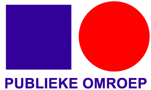 Logo of the Publieke Omroep